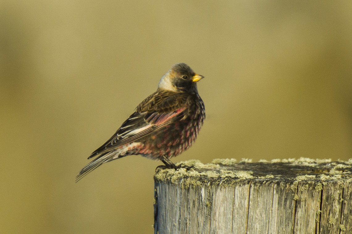 Asian Rosy Finch Leucosticte arctoa, Hokkaido, Japan S4E7626